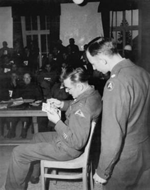 Capt. John Barnett testifies to the authenticity of photos taken when his troops overran the Dachau concentration camp at the trial of former camp personnel and prisoners from Dachau.